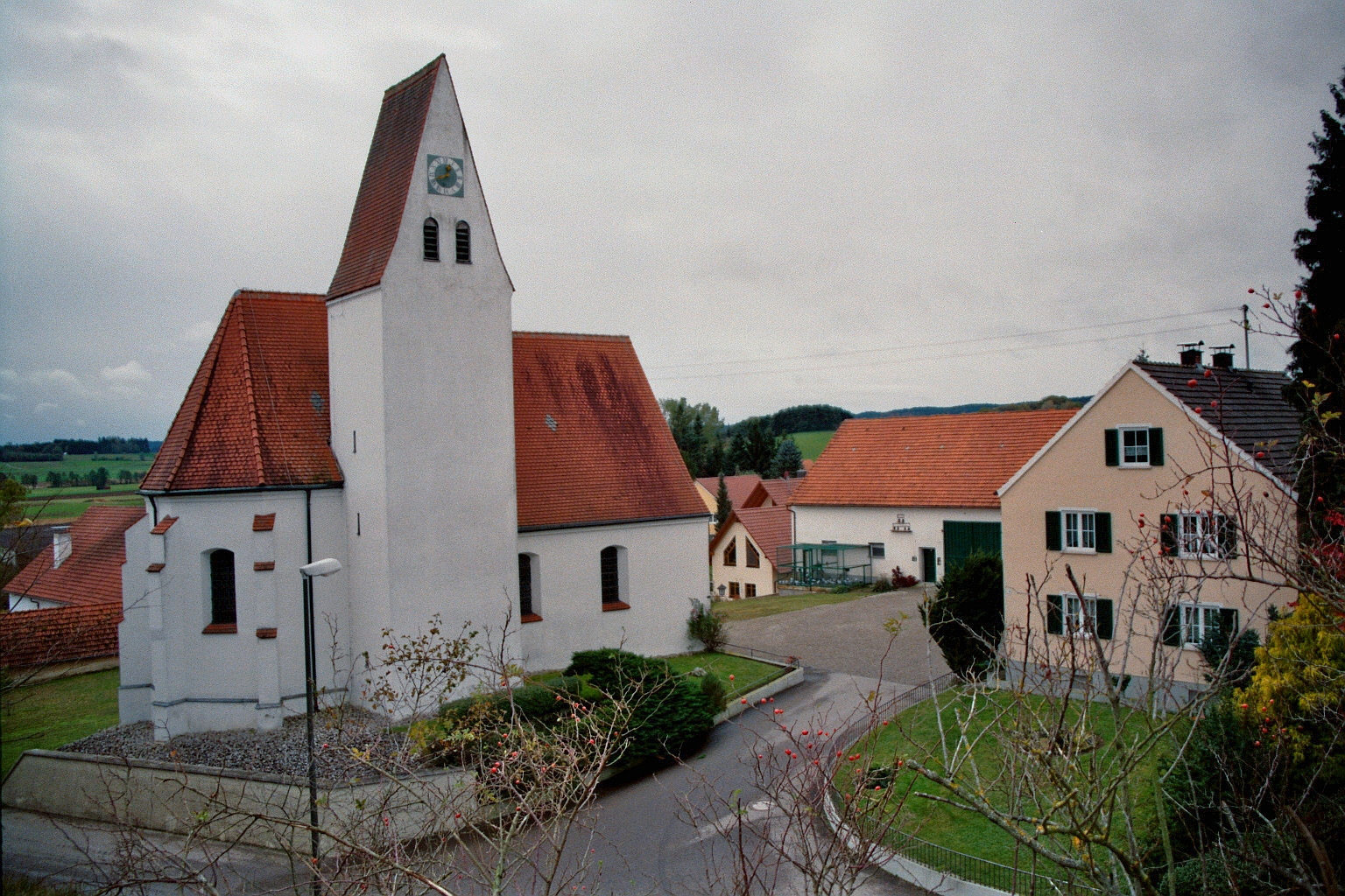 Roman catholic St Anne church (St.-Anna-Kirche) in Immendorf, part of Pöttmes, District Aichach-Friedberg, Bavaria, Germany. The church is a listed cultural heritage monument.